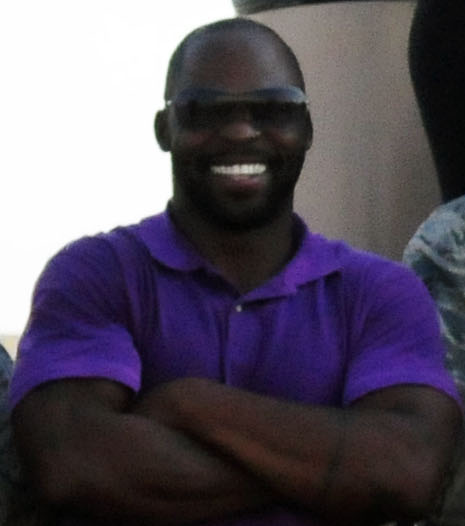 NFL player R. W. McQuarters poses at the 380th Air Expeditionary Wing Oct. 20, 2011. The football players and cheerleaders visited the base as part of an Armed Forces Entertainment tour for deployed service members. Top Cover visited the base during their tour to bases in the area of responsibility. (U.S. Air Force photo/Capt. Gina Vaccaro McKeen)